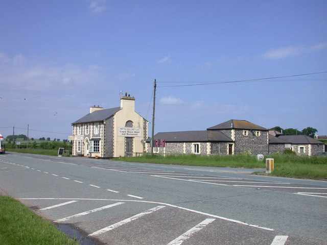 Coach House Hotel & Restaurant On the A505 at Flint Cross. 832338 can be seen next to the yellow bollard on the right.